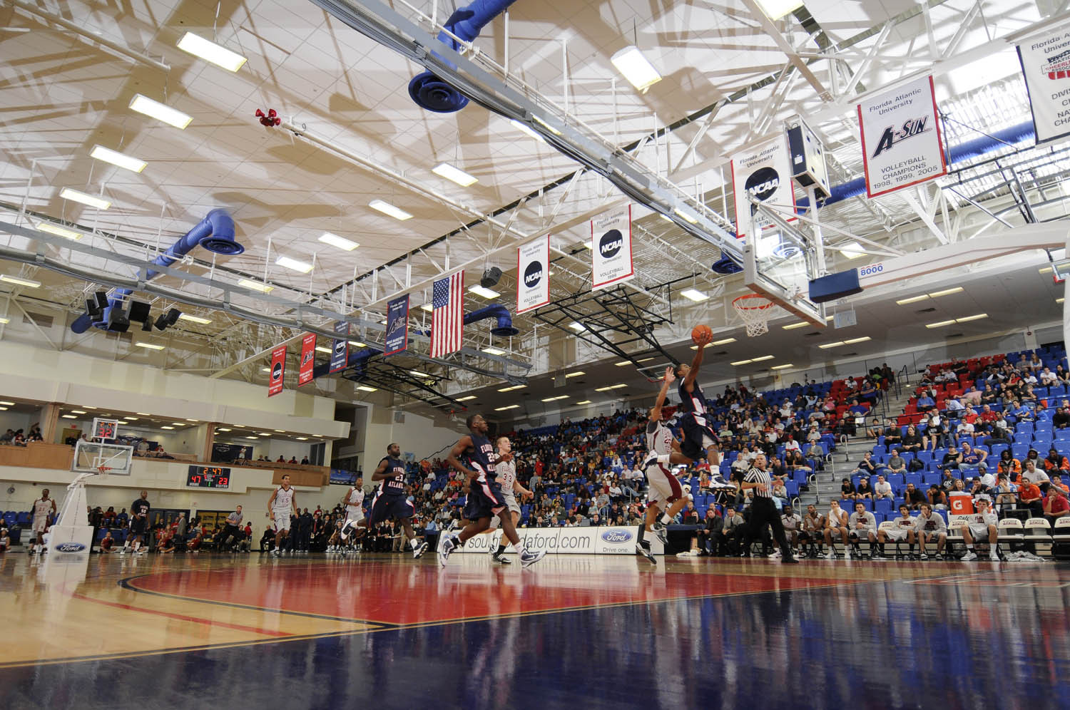 FAU Arena post-renovation